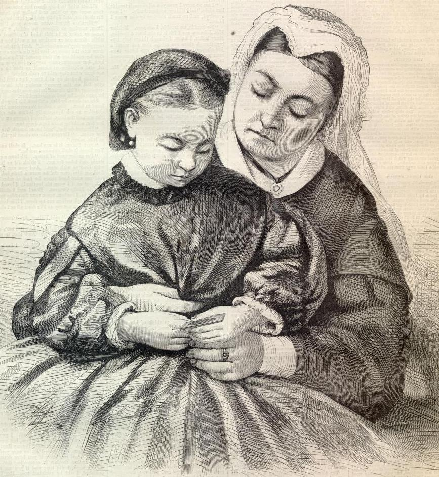 Queen Victoria and Princess Beatrice